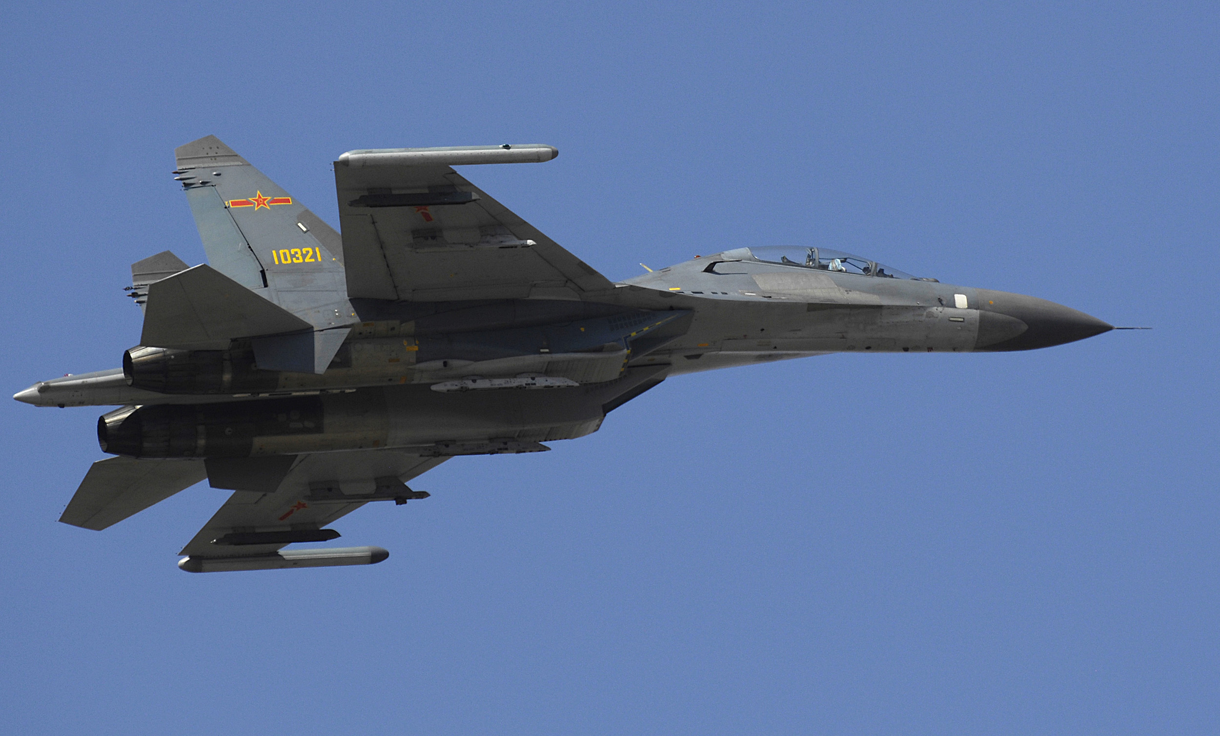 A Chinese Su-27 Flanker fighter makes a fly by while the Chairman of the Joint Chiefs of Staff, Marine Gen. Peter Pace, visits with members of the Chinese Air Force at Anshan Airfield, China, March 24, 2007.